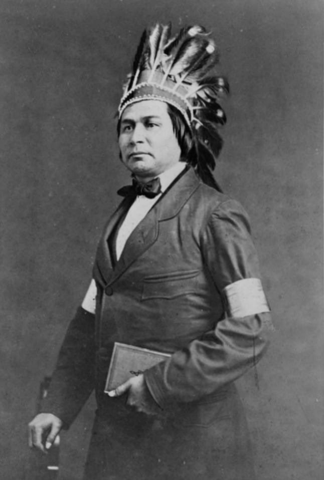 George Copway, half-length portrait, standing, facing left, holding book, wearing feather headdress.